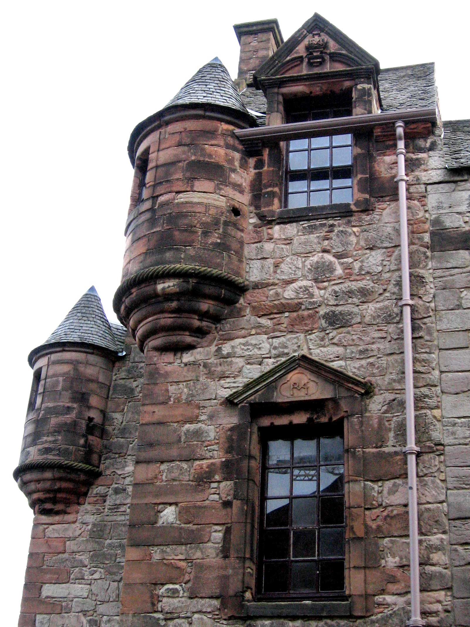 Corner turrets at Newark Castle, Port Glasgow, and windows in the short west wing connecting the mansion to the gatehouse.